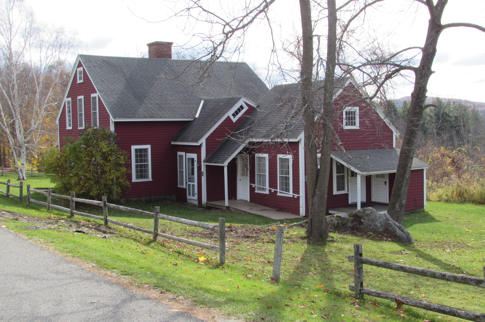 A recreation of the little red farmhouse which Nathaniel Hawthorne and his family rented in Lenox, Massachusetts. Hawthorne lived here while writing The House of the Seven Gables, among other works. He also met Herman Melville during his time here. The recreated home is located just behind the Tanglewood Performing Arts Center.